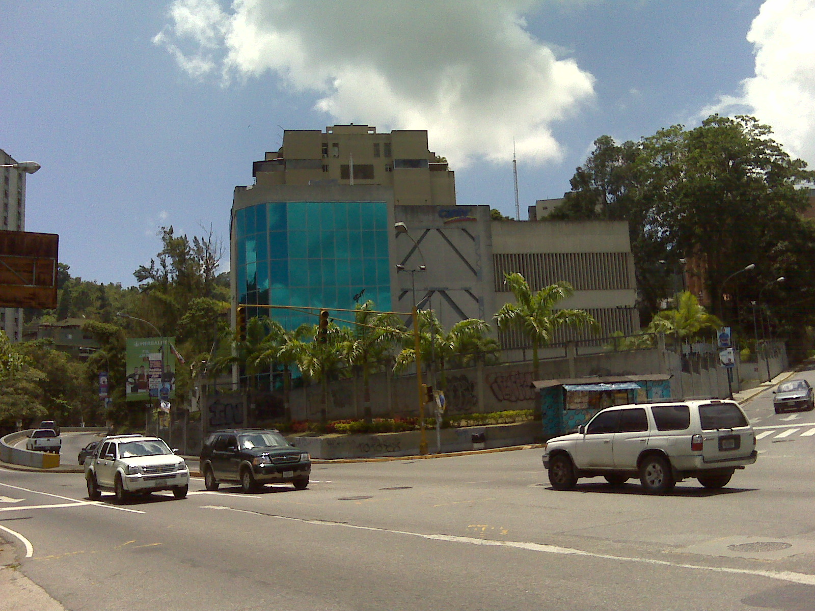 Sector La Boyera, municipio El Hatillo, Estado Miranda - Venezuela (2012)